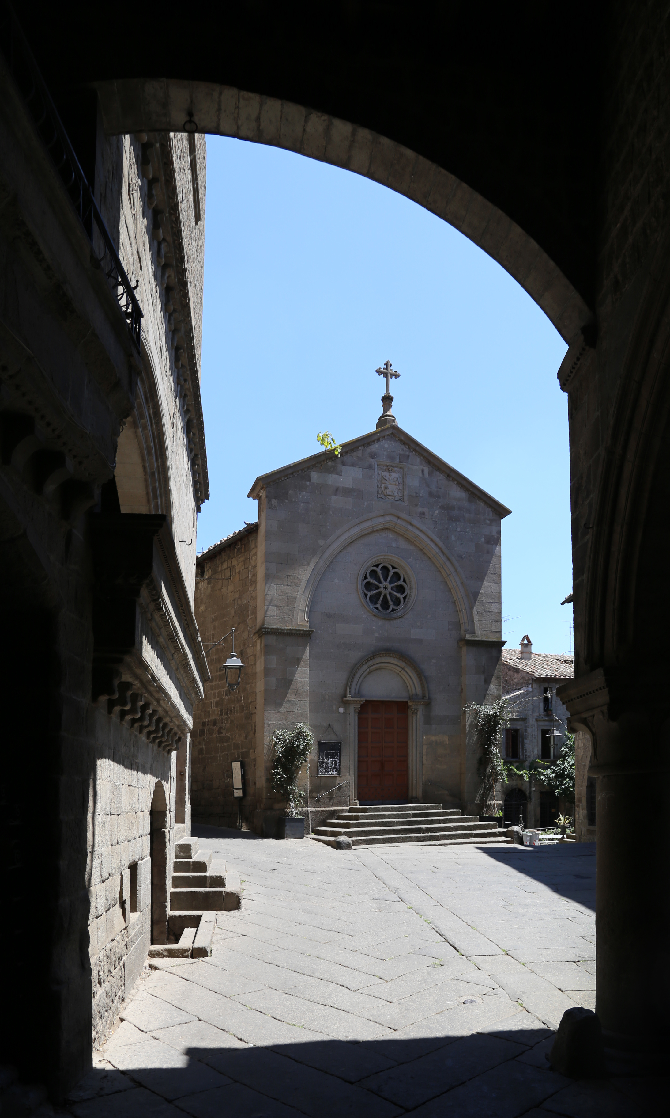 San Pellegrino (Viterbo)